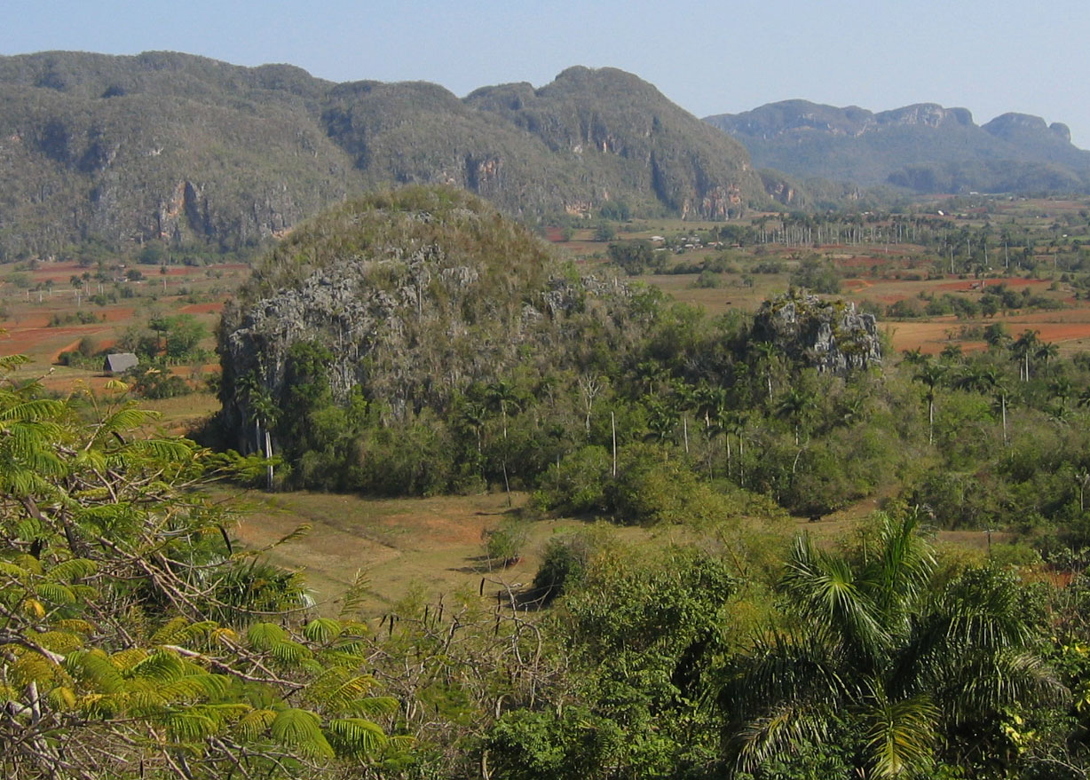 Valle de Viñales, Cuba